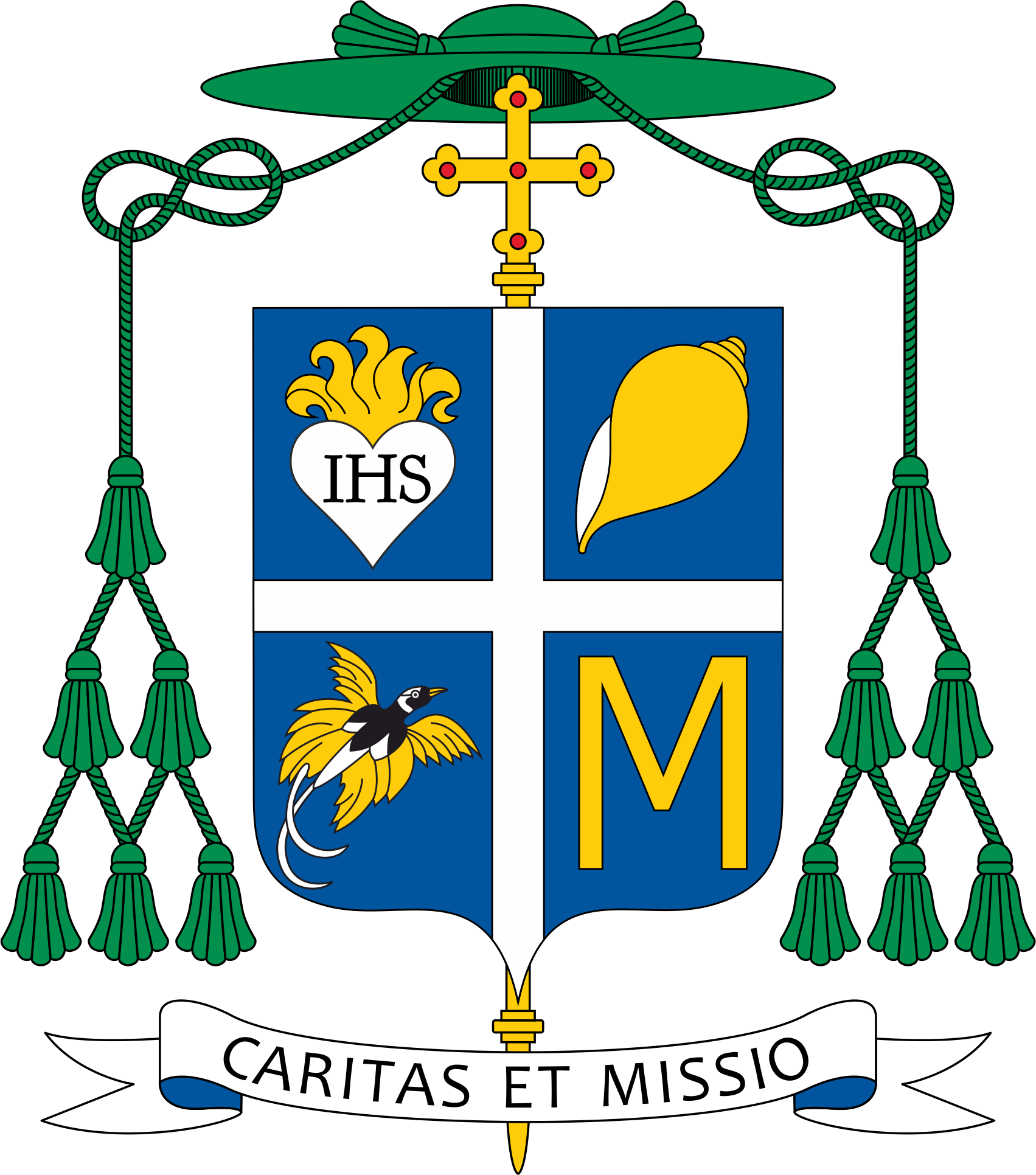 Bishop Rolando Santos CM, coat of arms png